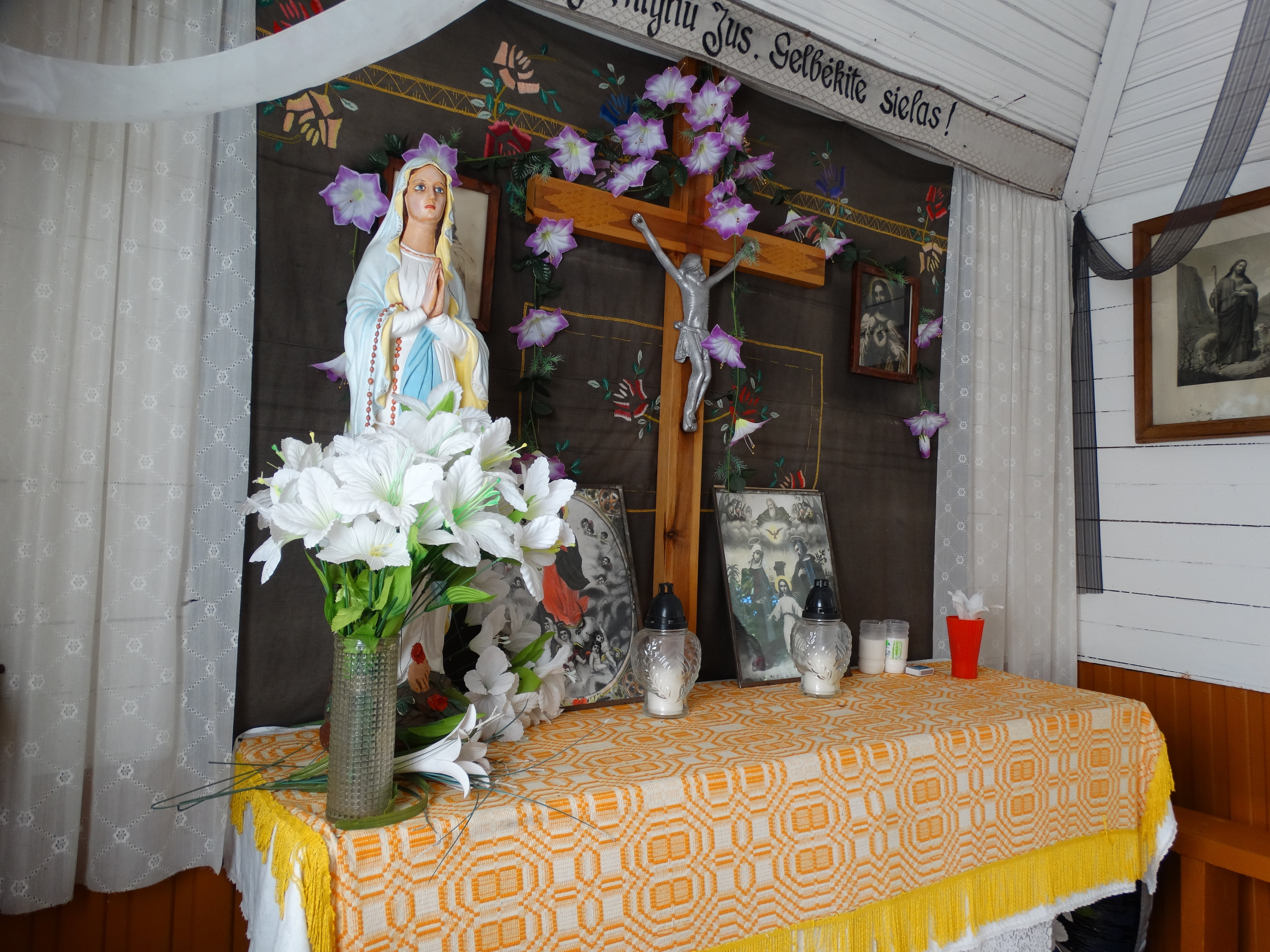 Bajorėliai, chapel, Zarasai District, Lithuania